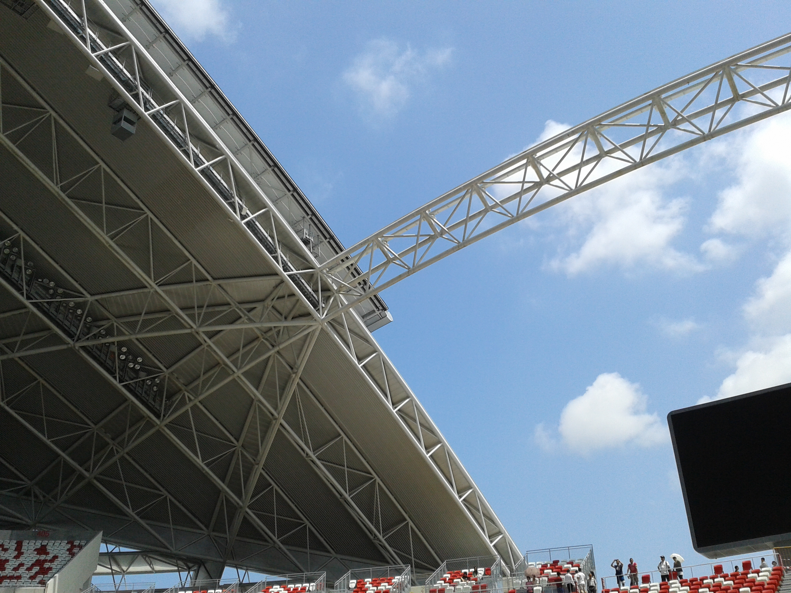 Retractable Roof of Singapore National Stadium